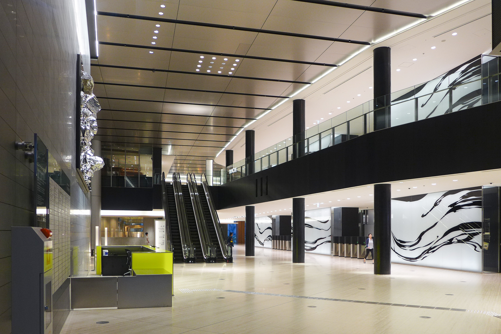 Toranomon Hills Office Lobby